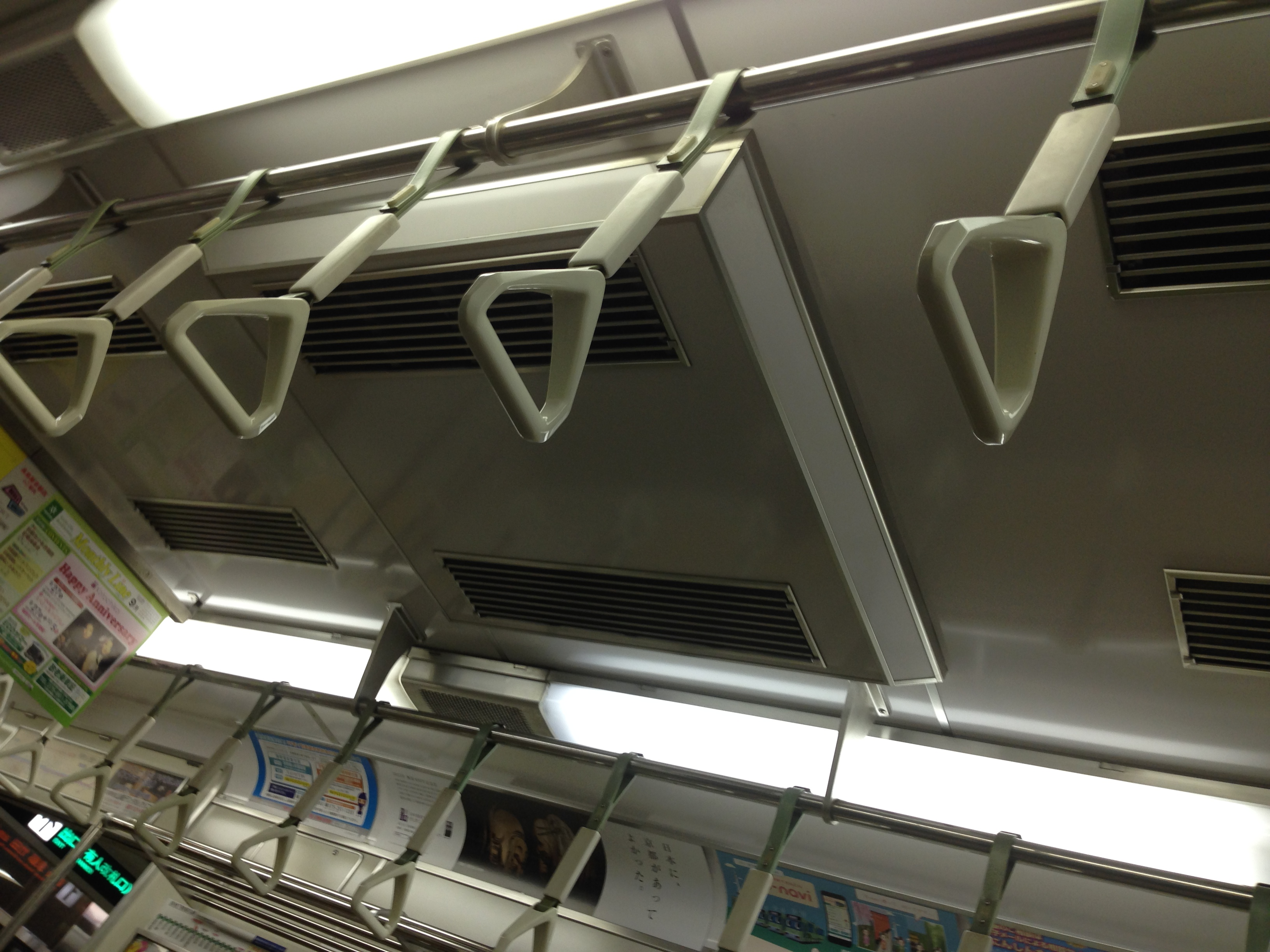 Kyoto subway 1203 ceiling